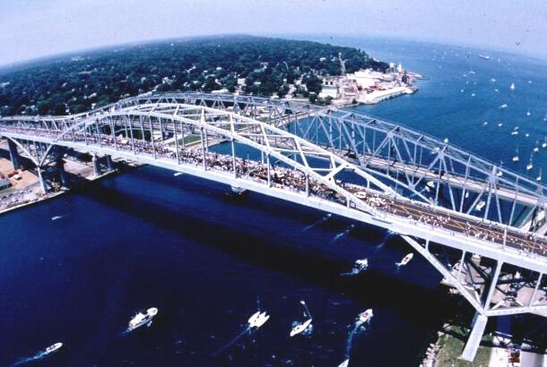 Photo of 2nd Blue Water Bridge. U.S. Department of Transportation Federal Highway Administration Excellence in Highway Design 1998 Biennial Awards